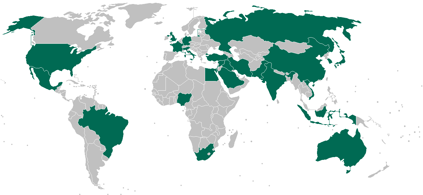 Regional Powers for the Regional Power article.